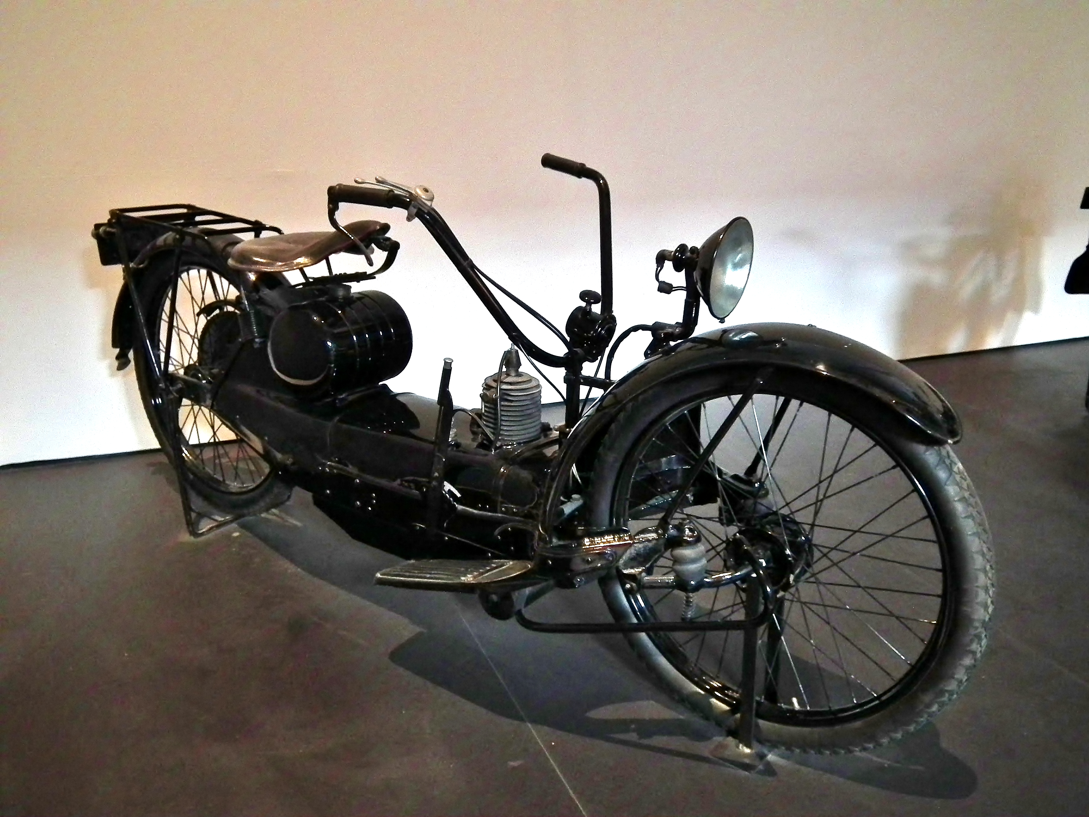 1924 Ner-A-Car 285cc motorcycle. Part of Sydney's Powerhouse Museum collection.